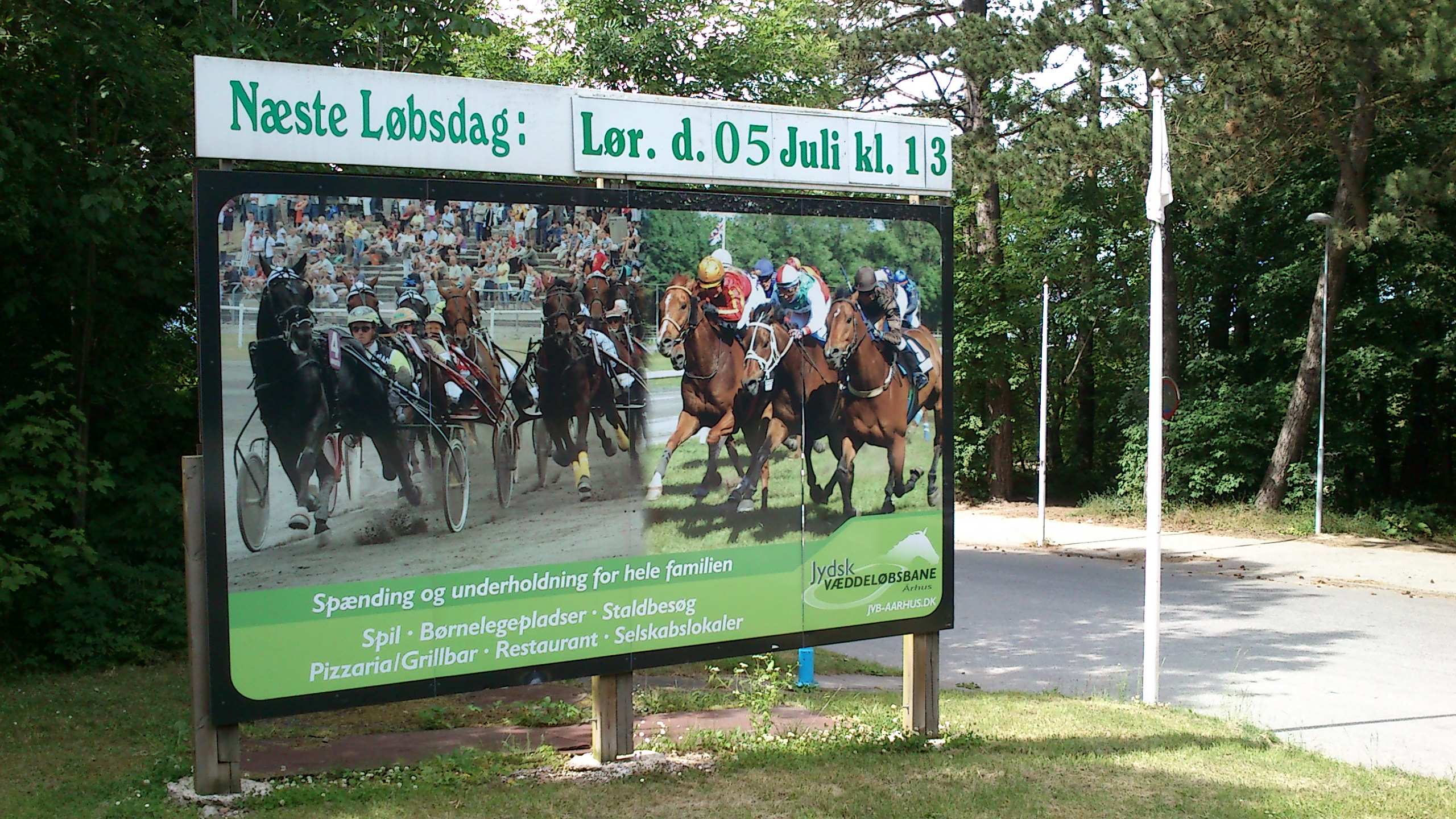 Board at the entrance to Jydsk Væddeløbsbane.